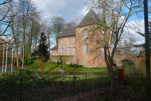 Moorsele Kasteel